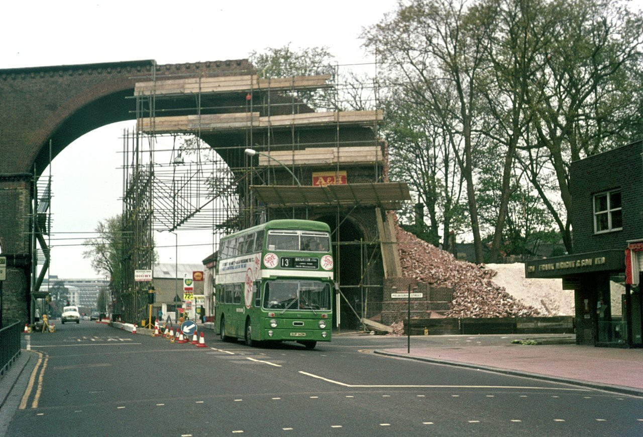 Lewes Road Viaduct This view shows the viaduct on the former branch line to Brighton Kemp Town during demolition in 1976. The branch lost its passenger services as long ago as 1933, but retained freight facilities until 1971.